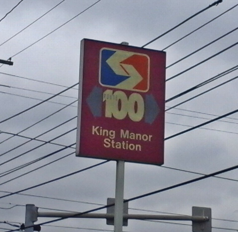 Signage for Dekalb Street Station still reads as King Manor as of July 2014.